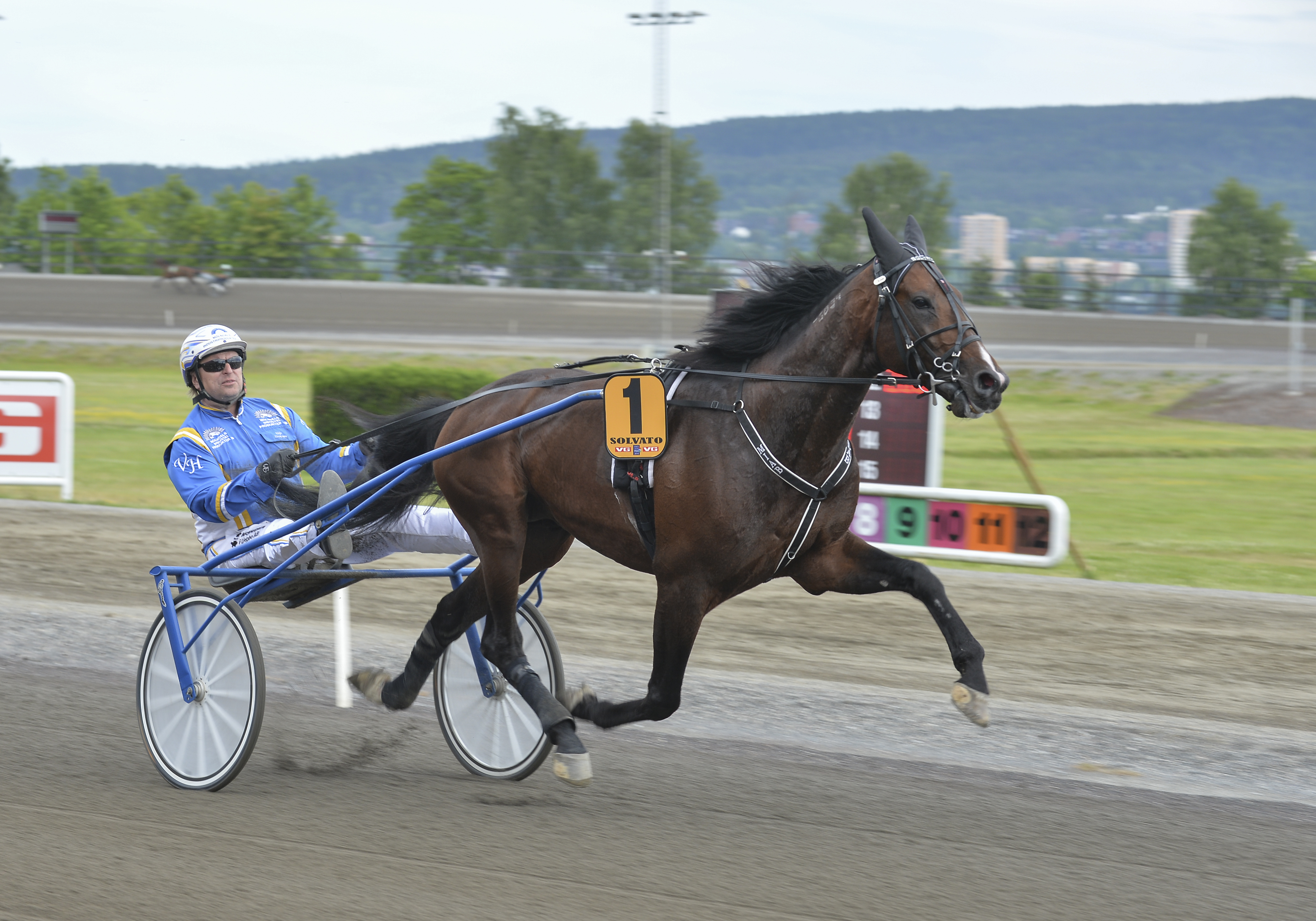 Solvato and driver/trainer Veijo Heiskanen 2014.